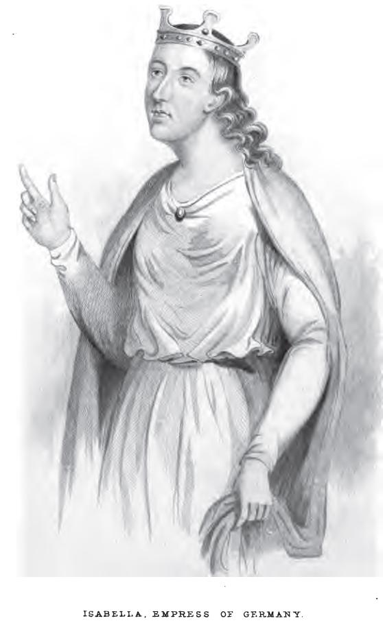 Isabel Plantagenet, Empress of Germany